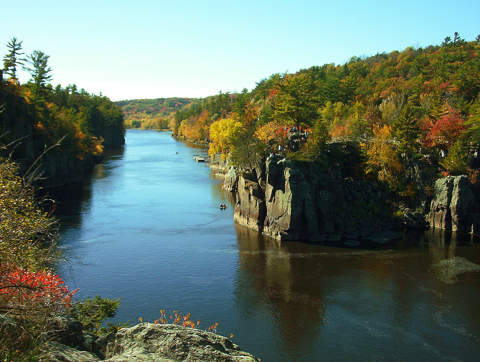 Dalles of the St. Croix River in Interstate State Park, Minnesota — from the Wisconsin bank. Part of the NPS Ice Age National Scientific Reserve.